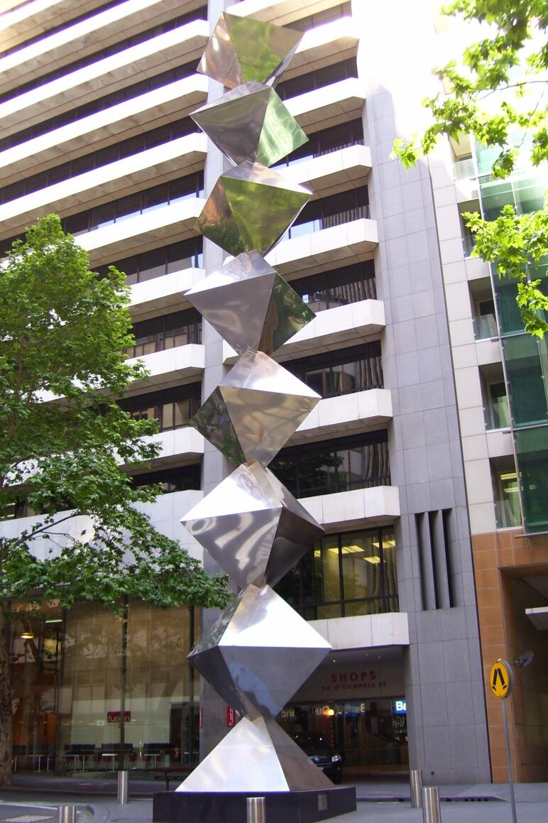 Sculpture Pyramid Tower (1981) by Bert Flugelman in Sydney/Australia